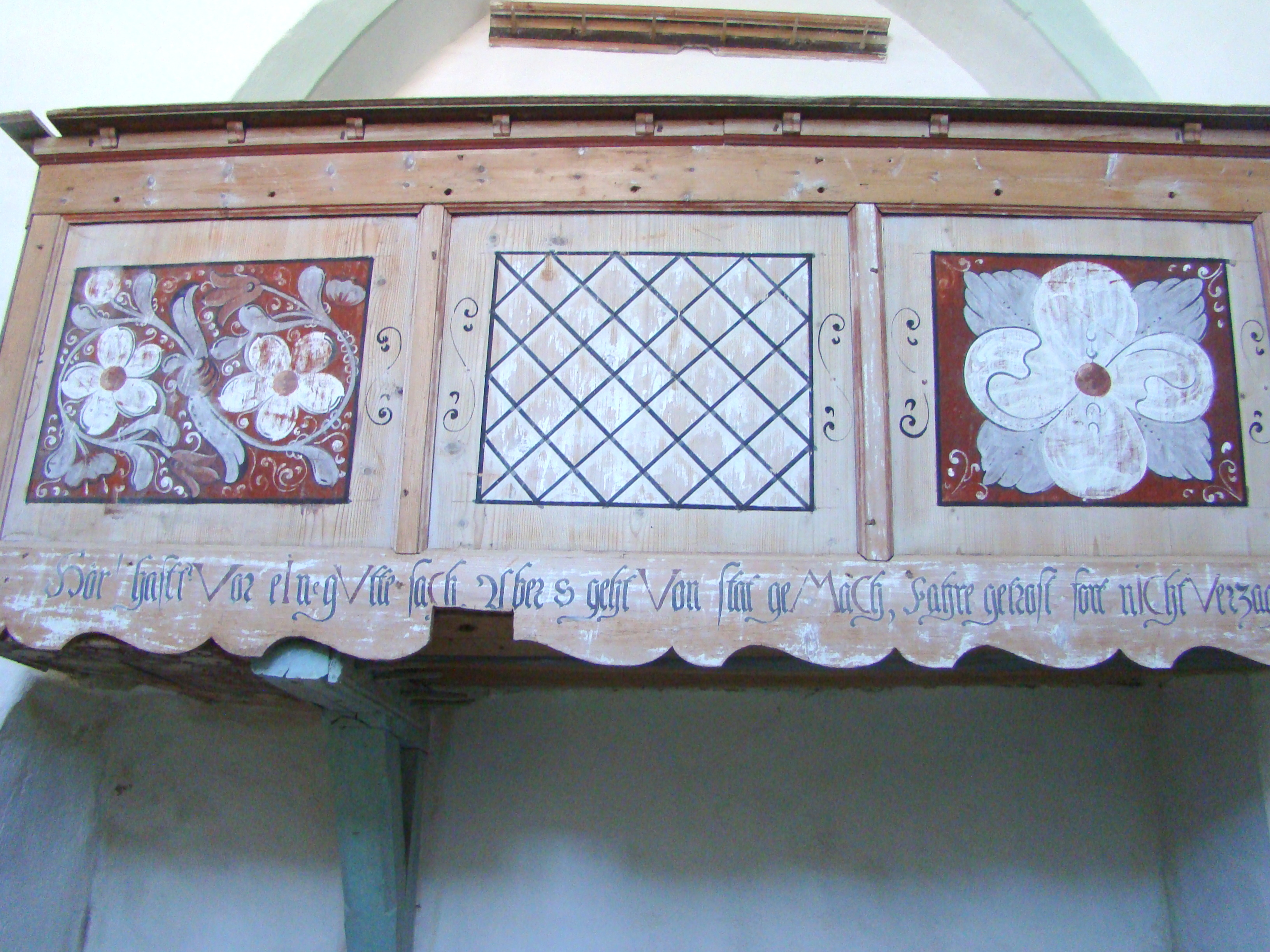 Fortified church in Bunești, Brașov County, Romania